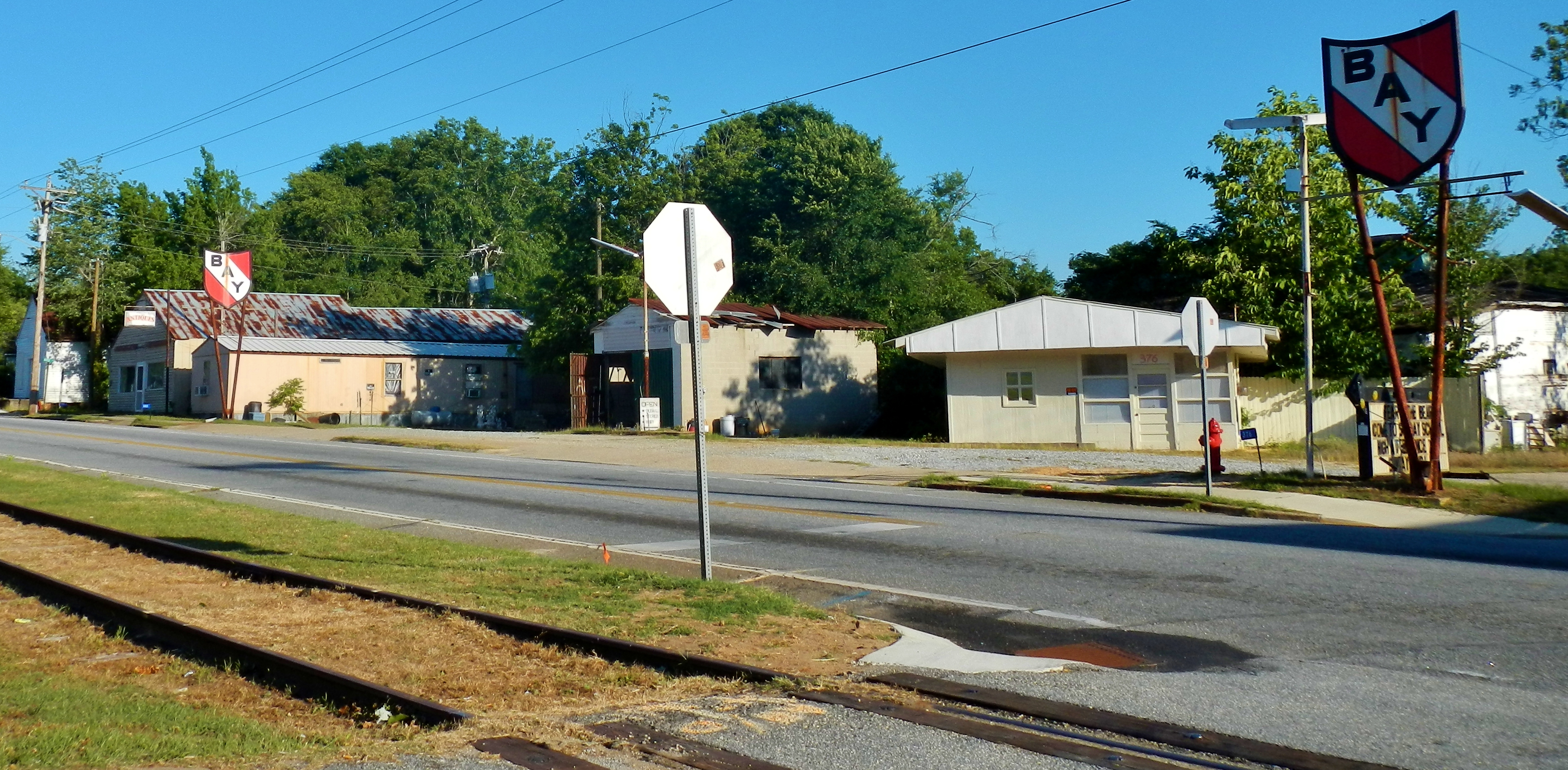 This is a photo of Cusseta, Georgia.